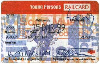 Fourth APTIS version of the Young Persons Railcard. Scanned from my own collection.